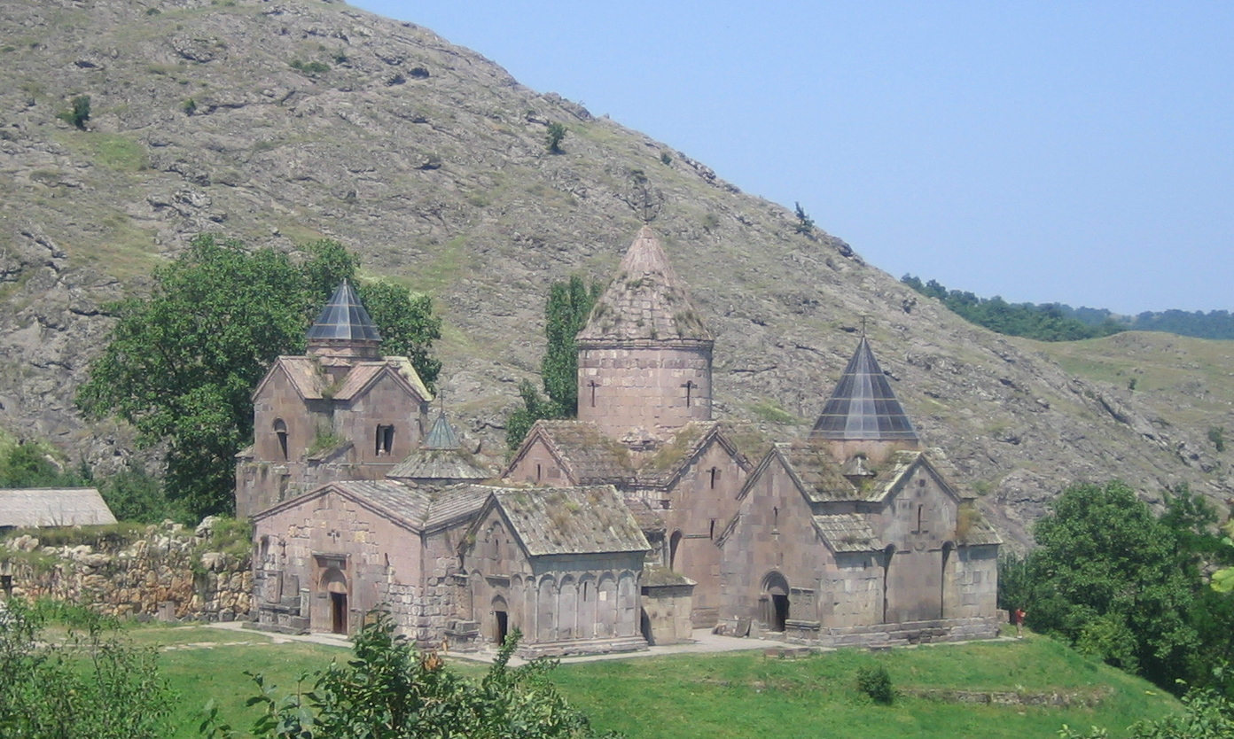 View of Goshavank monastery in the village of Gosh, in the Tavush region of Armenia near Dilijan.